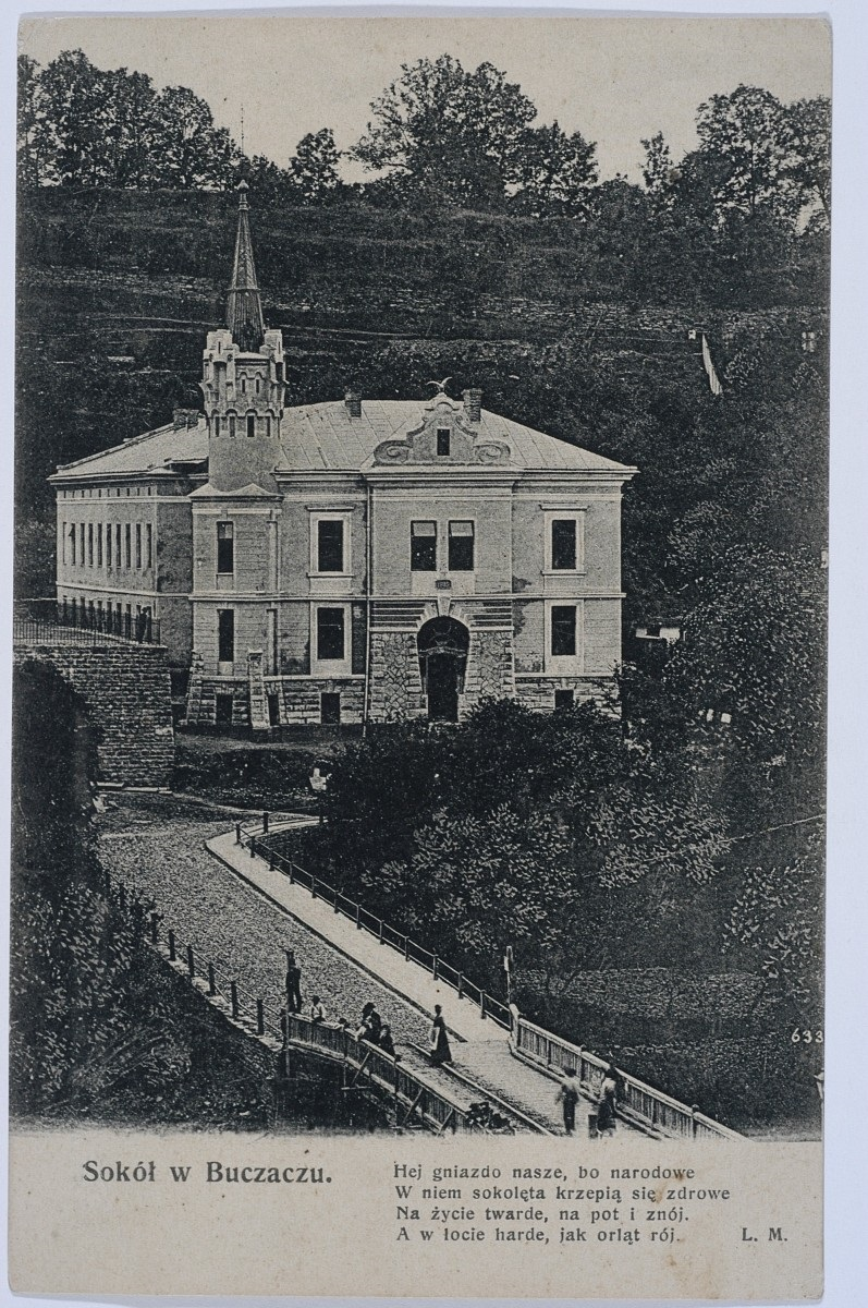 Buchach